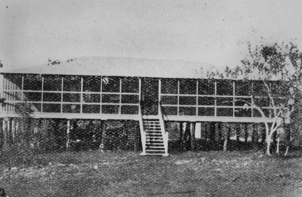 Example of residence built by Mount Isa Mines for their employees, 1929.